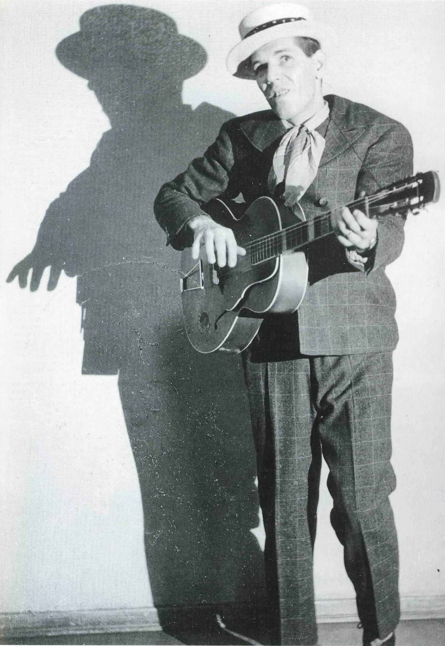 Reino Helismaa finnish singer